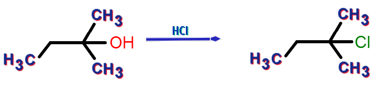 Terc-amyl chloride synthesis from terc-amyl alcohol